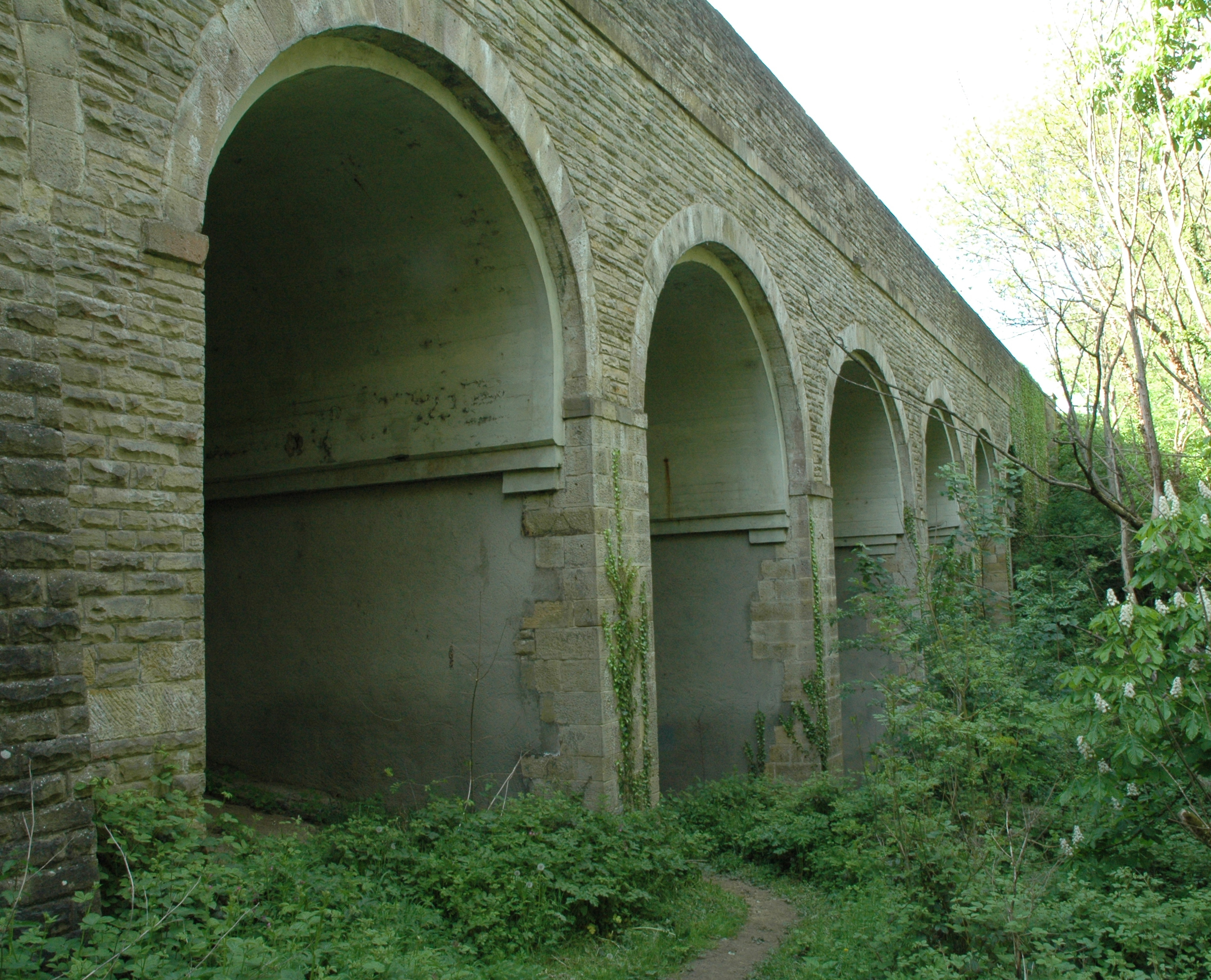 Crambeck Bridge, A64, Crambeck, North Yorkshire. Built in 1785 by John Carr (architect) and later widened in 1935.